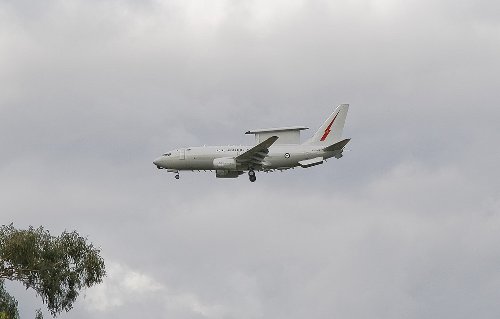 RAAF Boeing 737 'Wedgetail' AEW&C